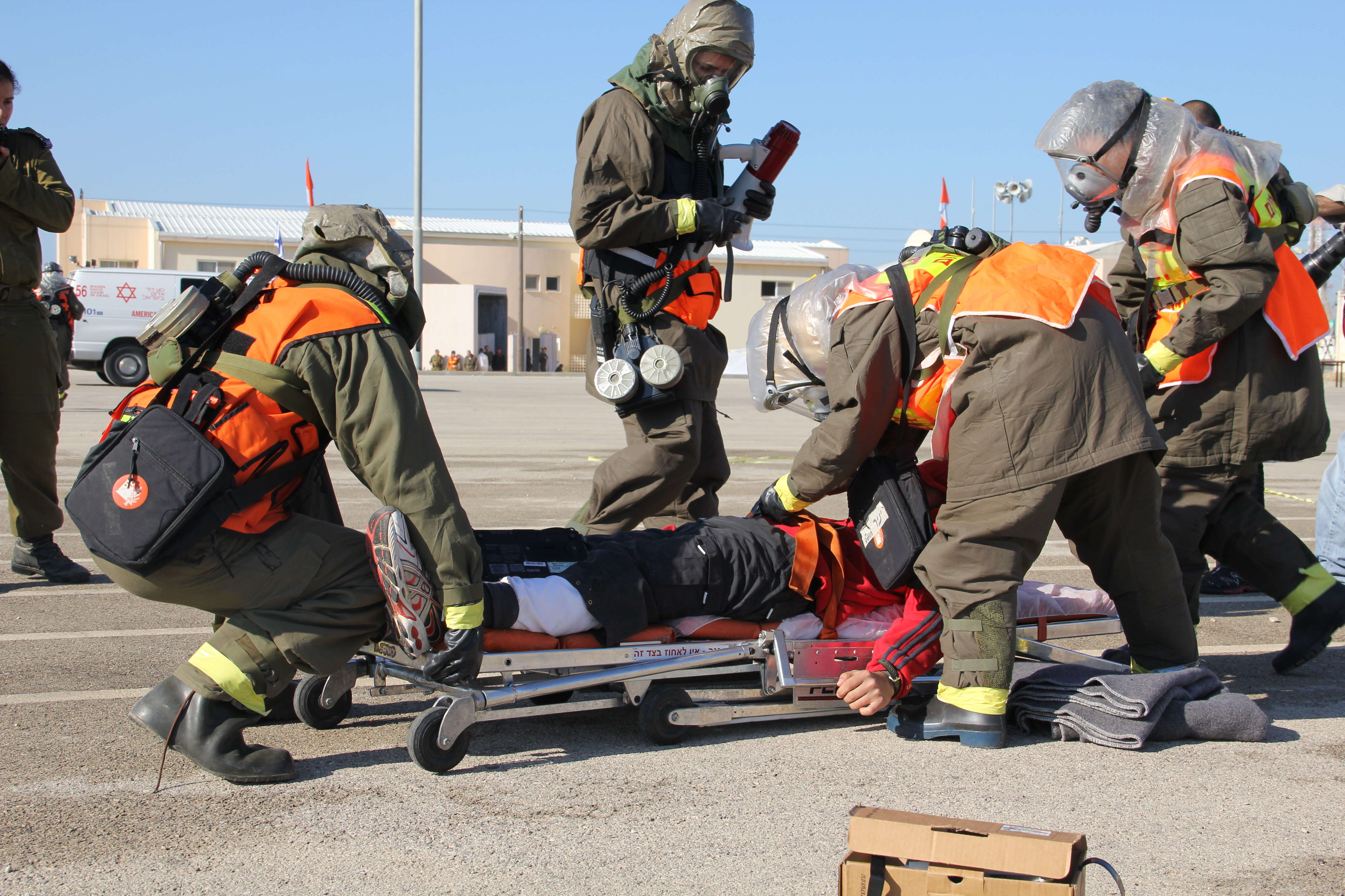 A drill simulating a nuclear, biological and chemical attack on central Israel was successfully held by IDF Home Front Command soldiers on Monday. Facing a complex scenario, soldiers evacuated "injured" civilians and escorted them to a military field hospital. Photo by Pvt. Topaz Luk, IDF Spokesperson Unit. The Israel Defense Forces Facebook page The Israel Defense Forces blog Follow us on Twitter